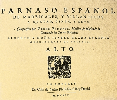 Cover of Pedro Ruimonte's "Parnaso español".